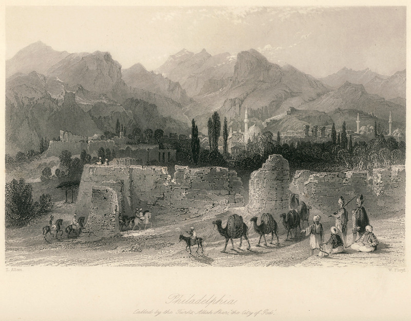 Illustration from Constantinople and the Scenery of the Seven Churches of Asia Minor illustrated…, With an historical Account of Constantinople, and Descriptions of the Plates…, London/Paris, Fisher, Son & Co. (1836-38), by Robert Walsh and Thomas Allom